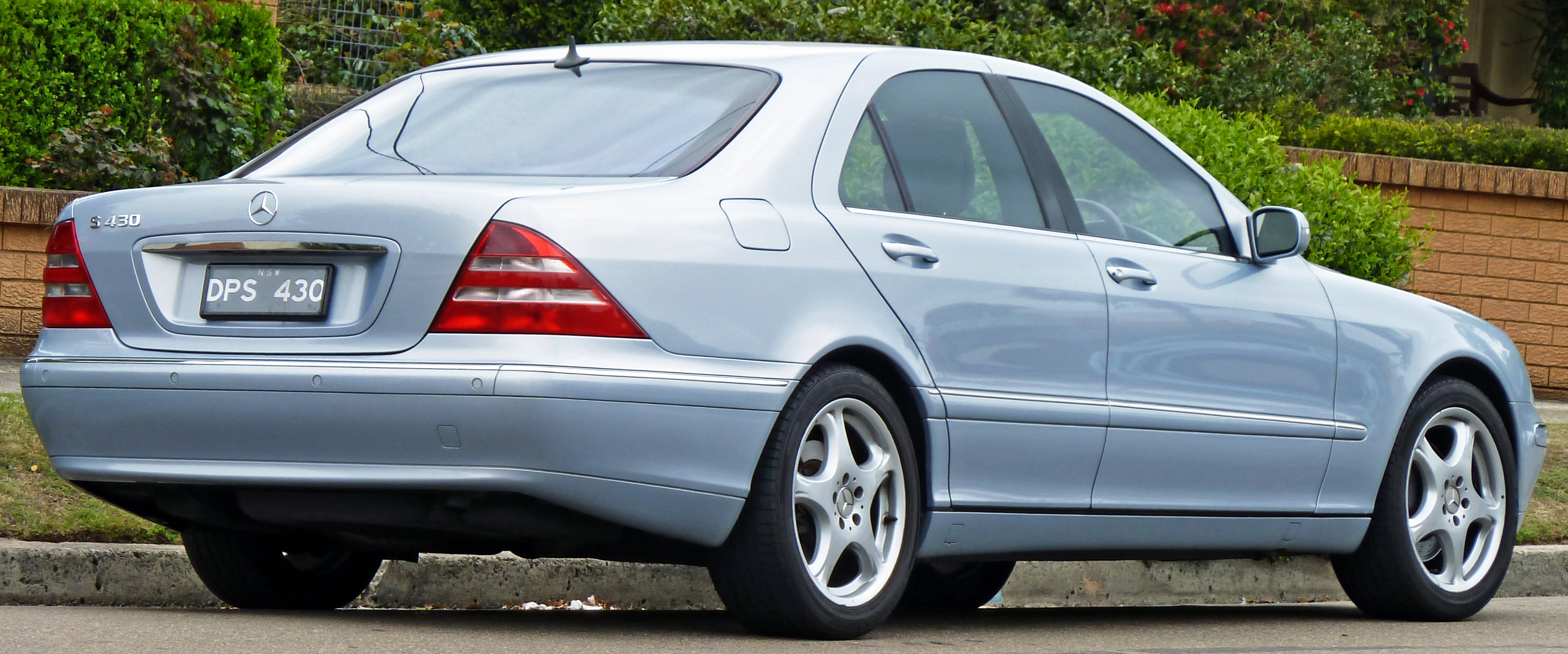 2001 Mercedes-Benz S 430 (W 220) sedan. Photographed in Sandringham, New South Wales, Australia.